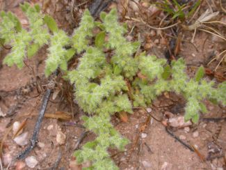 Herniaria hirsuta ssp. cineria. BLM photo, no copyright.